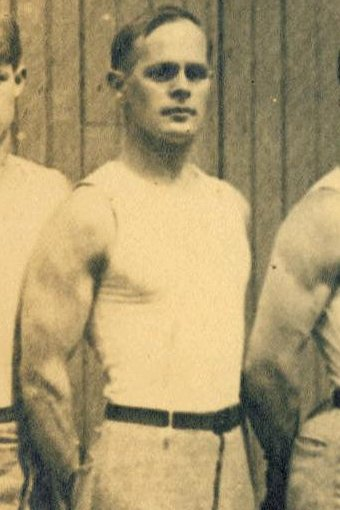 George Eyser (1871-?)